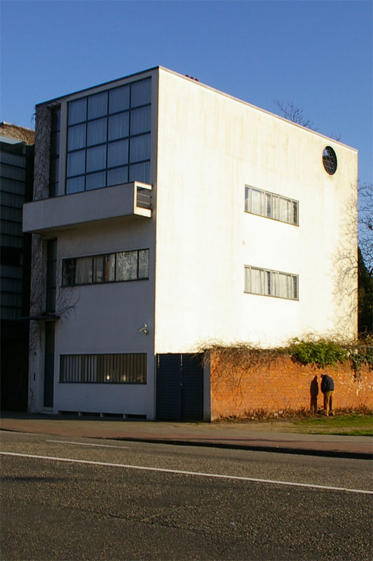 Man urinating on Le Corbusier. The only structure designed by Le Corbusier for Belgium is the Maison Guiette in Antwerp. It was built in 1926 as the house and studio for painter René Guiette.